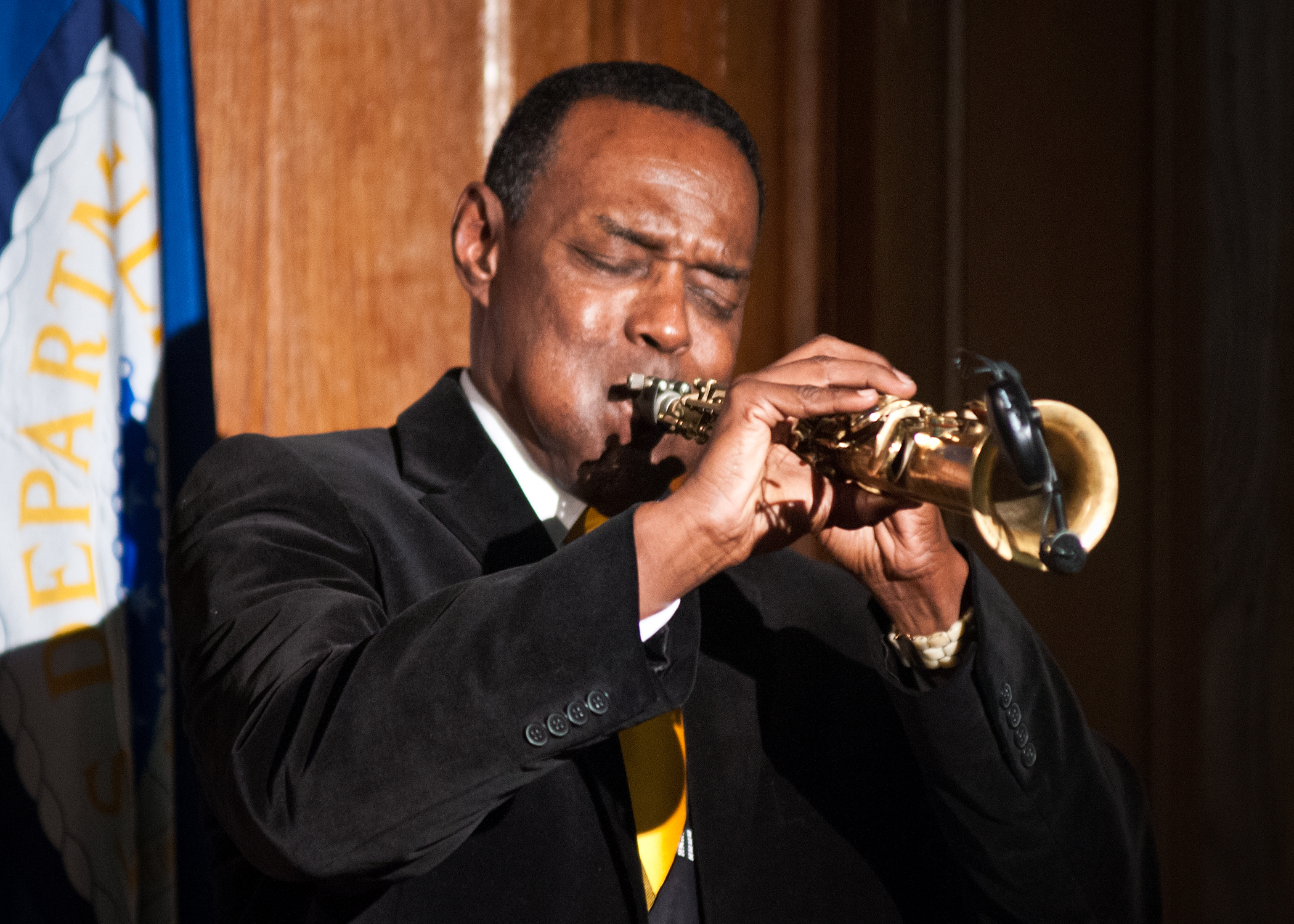 J. Plunky Branch of the Afro-Funk Jazz Group, “Plunky and Oneness” performs a saxophone solo of The Negro National Anthem at the National Service Day and Martin Luther King Celebration in honor of Dr. Martin Luther King Jr.’s contributions to the Civil Rights Movement at the United States Department of Agriculture in Washington, D.C., on Thursday, January 12, 2012. USDA Photo by Bob Nichols.